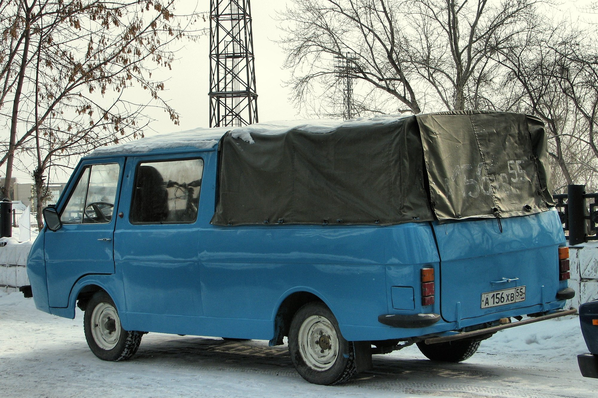 RAF-2909, Omsk